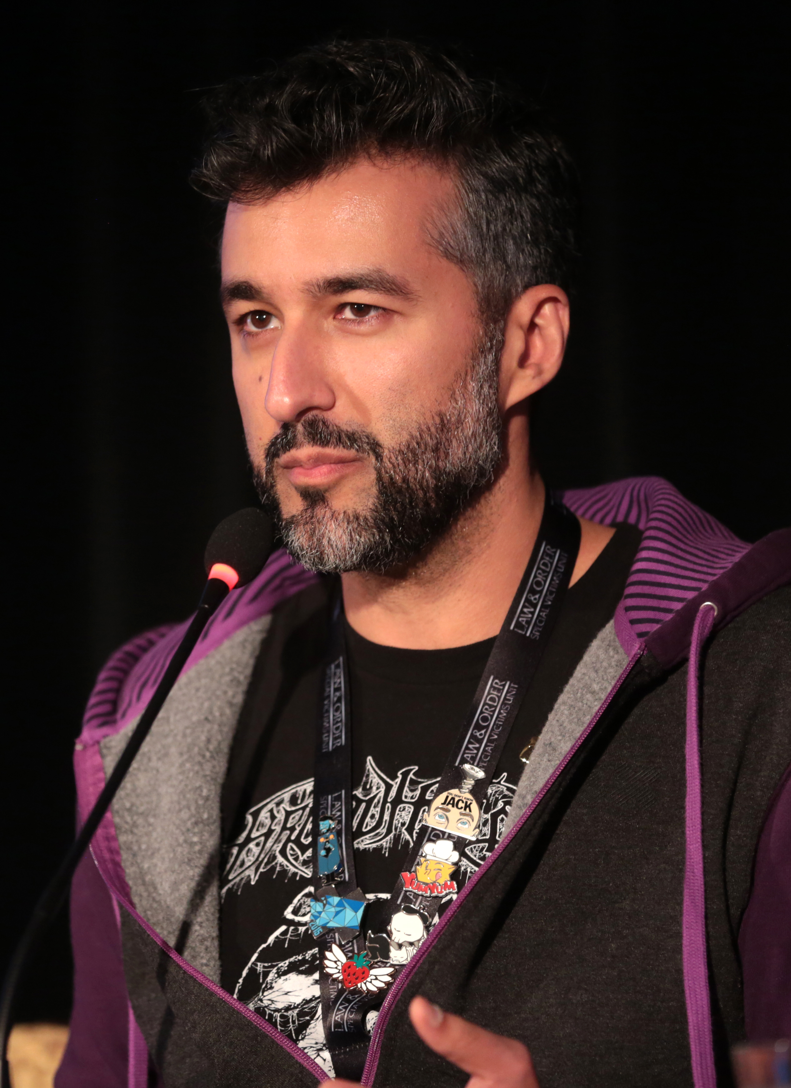 Kris Straub speaking at the 2018 PAX West in Seattle, Washington.